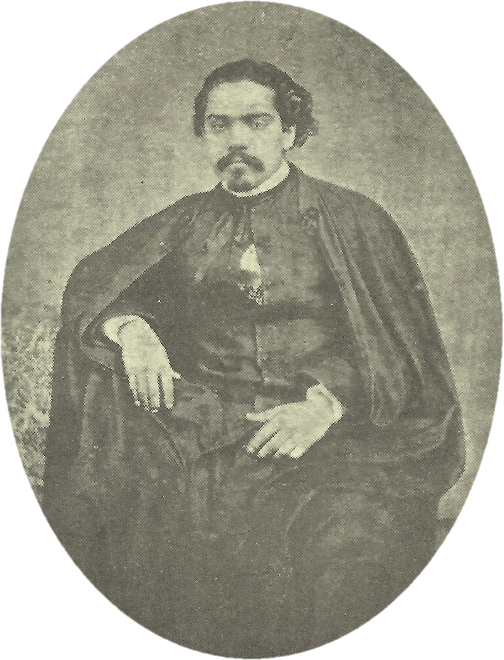 1860 photograph of Bernardino Pinheiro (1837-1896), Portuguese politician, wearing academic dress.